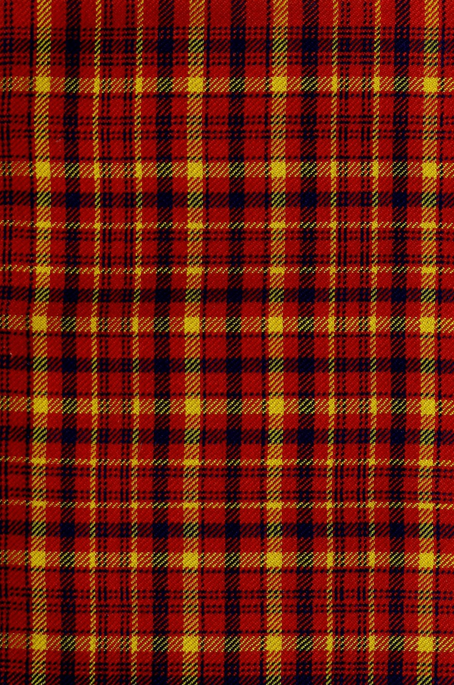 "From a plaid found at Culloden" [Detail] Old and rare Scottish tartans, with historical introduction and descriptive notices (1893) In the Mary Ann Beinecke Decorative Art Collection. Sterling and Francine Clark Art Institute Library.